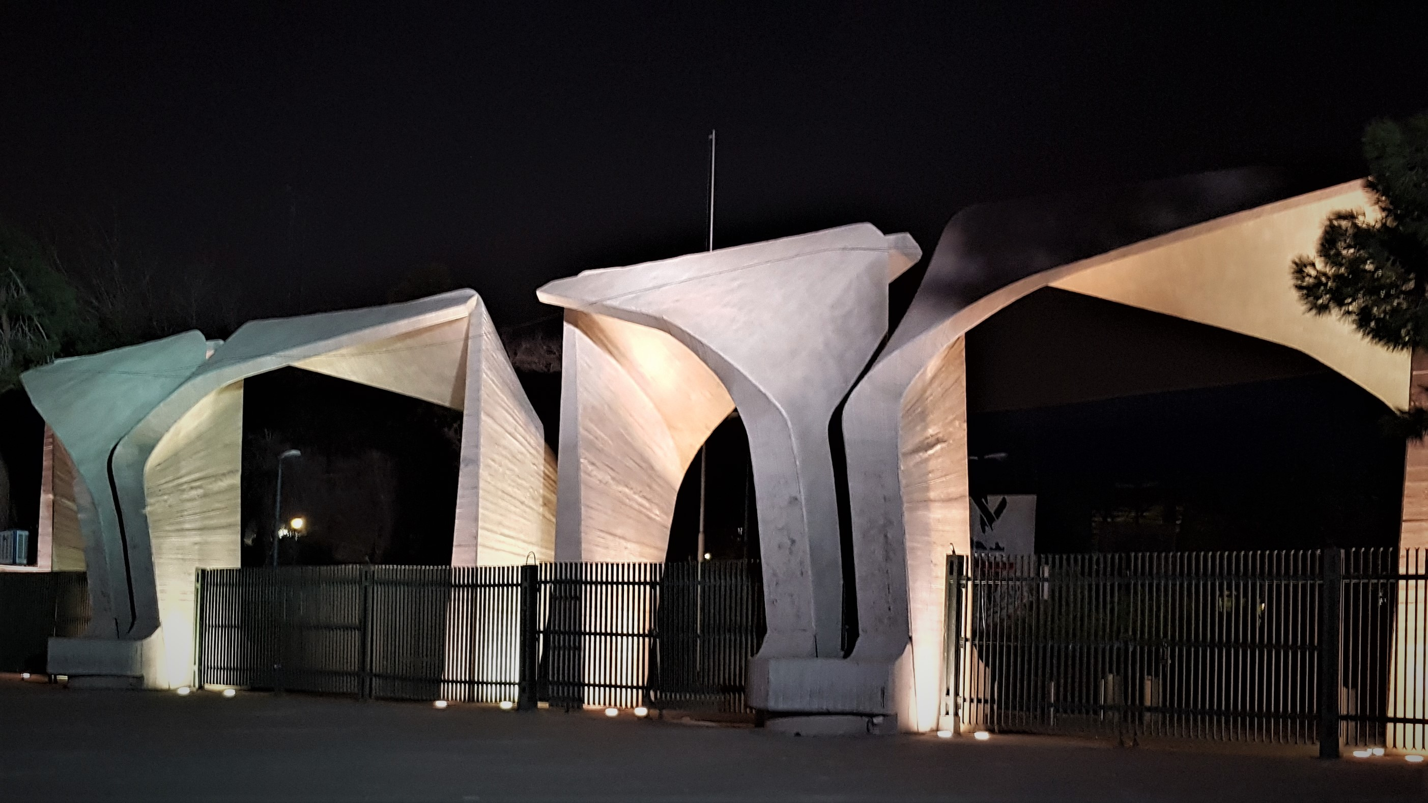 University of Tehran Main Entrance Gate